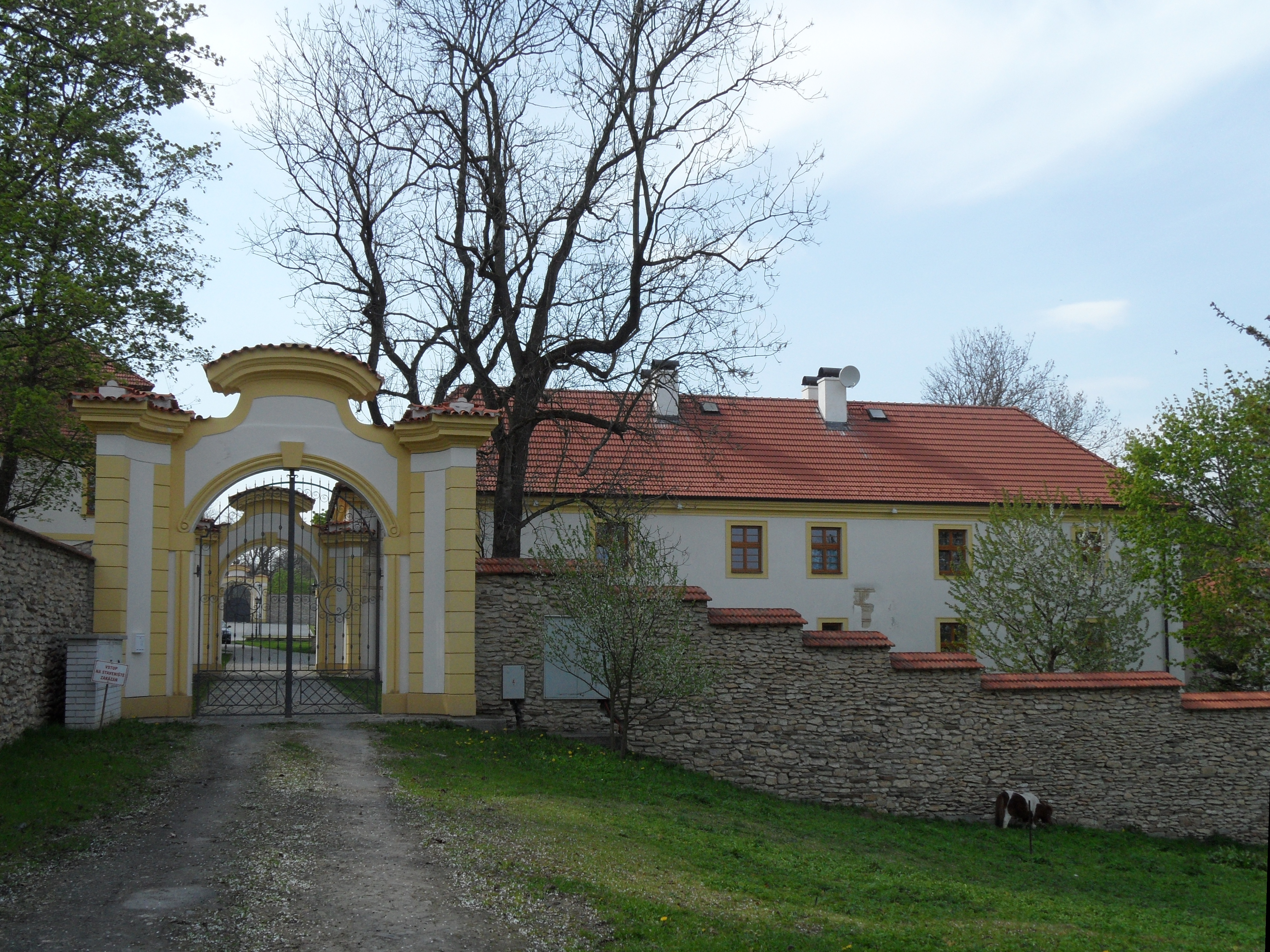 Radovesnice I a. Chateau Radovesnice: Overview, Kolín District, the Czech Republic.